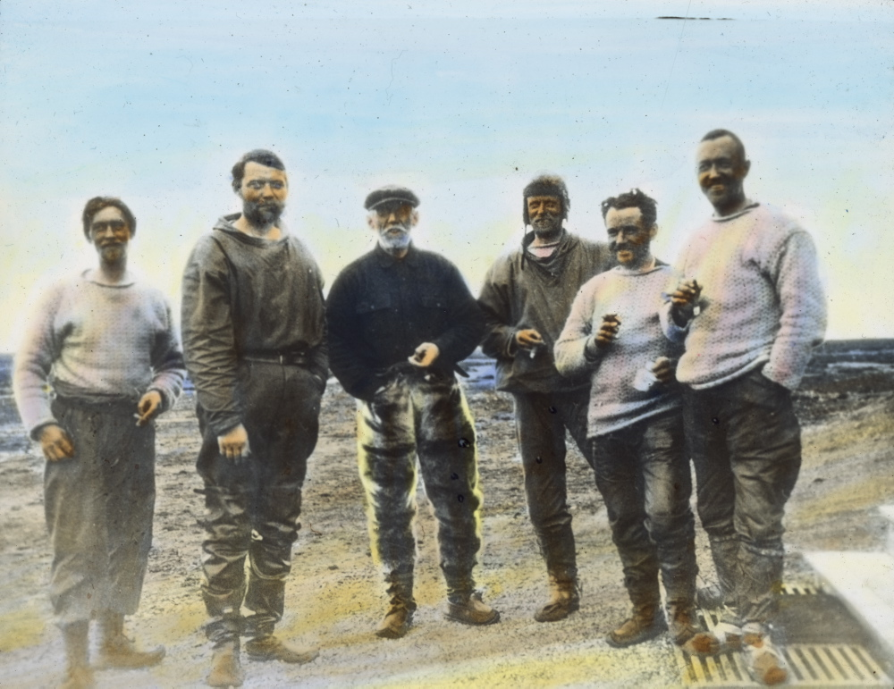 Håndkolorert dias. Gruppeportrett av besetning på N25.Sigarrøyking etter tilbakekomst til Ny-Ålesund. Omdal, Riiser-Larsen, Amundsen, Dietrichson, Feucht, og Ellsworth røyker sigar som de hadde fått av Zapffe.